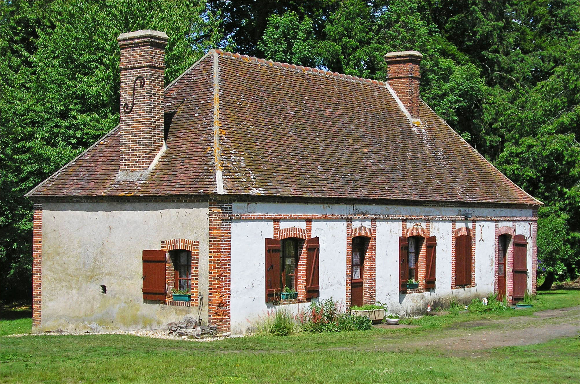 Marly Machines. Worker's house of the Forges of Dampierre-sur-Blévy.